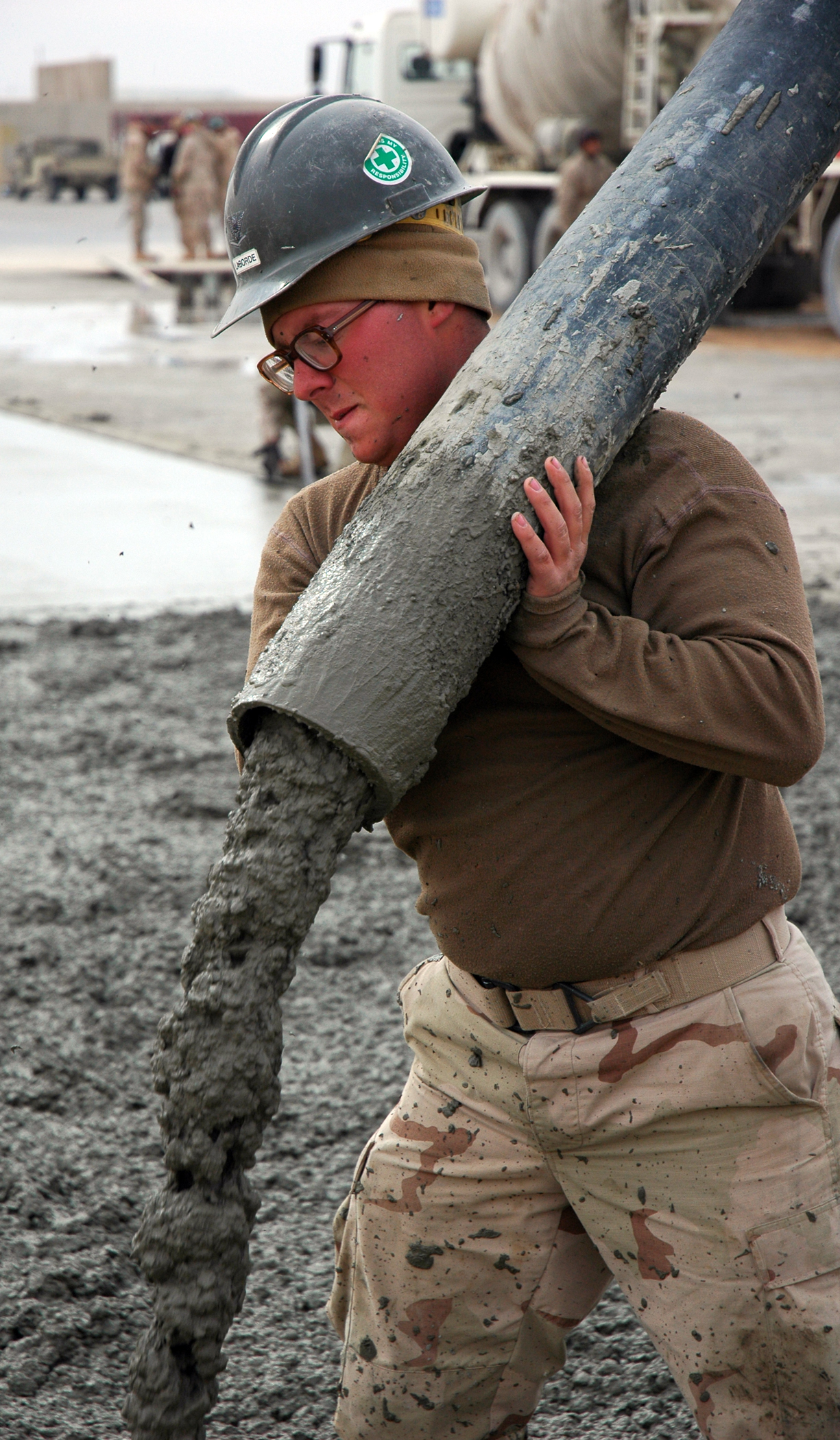 IRAQ (Jan. 10, 2008) Builder 3rd Class Shawn Laborde, a Seabee with U.S. Naval Mobile Construction Battalion (NMCB) 1, Task Force Sierra, fills forms with fresh concrete. NMCB-1 is currently deployed to several locations in the Middle East providing responsive military construction support to U.S. military operations. U.S. Navy photo by Mass Communication Speciaist 2nd Class Demetrius Kennon (Released)